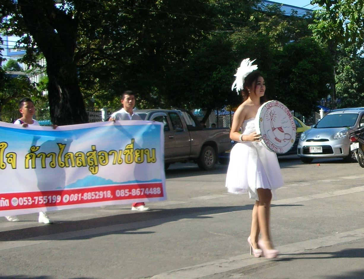 Chiang Rai Witthayakhom School 2012 Sports Day parade 2012 Sports Day parade. A student carrying the school emblem